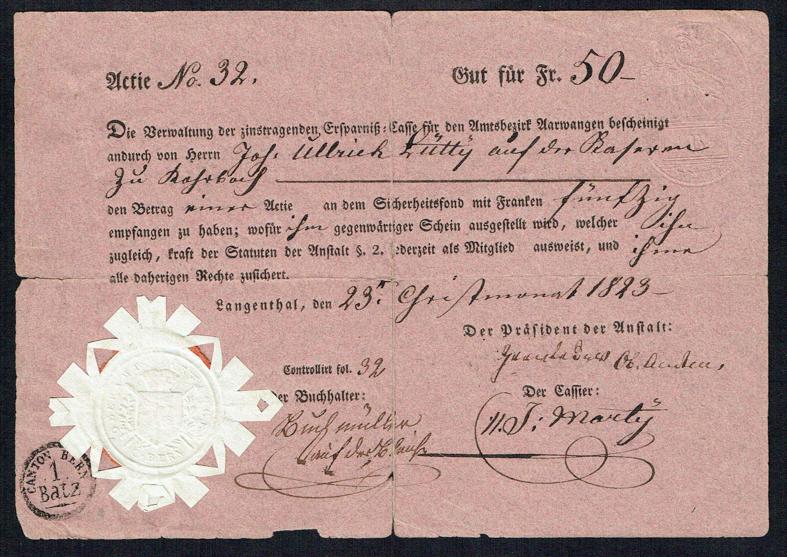 Share of the Ersparniss-Casse in Langenthal, issued 23. December 1823